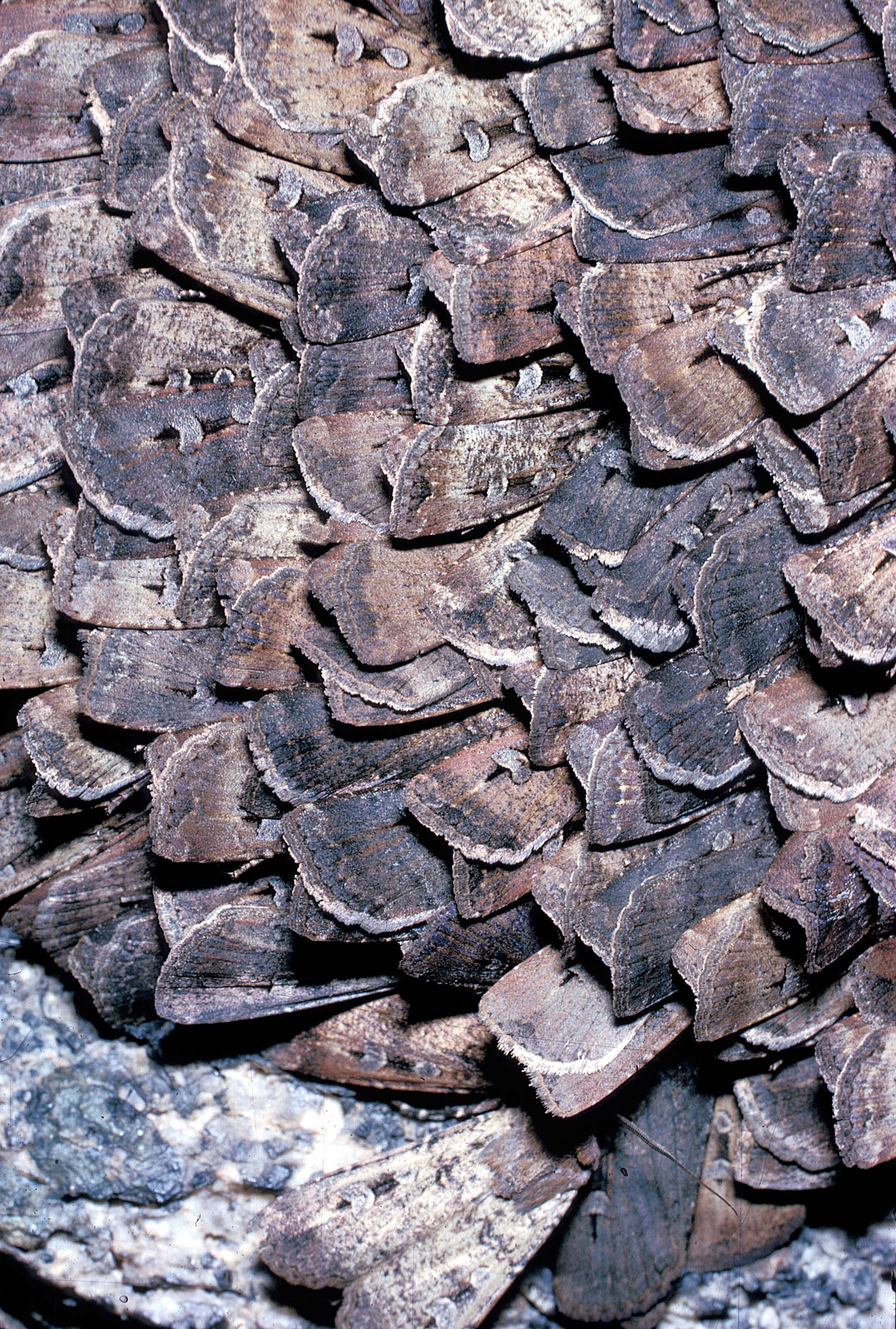 The bogong moth (Agrotis infusa) migrates in large numbers each spring from the western slopes and plains of Victoria, NSW and Qld to the high country of eastern NSW and Vic. Westerly winds sometimes carry them out to the coast and sea, where large numbers perish. Otherwise, the moths progressively congregate at granite outcrops in deep crevices. They cluster in imbricate formation, sometimes emerging at dusk to make short trips, but rarely feeding. They return to the western slopes and plains the next Autumn.